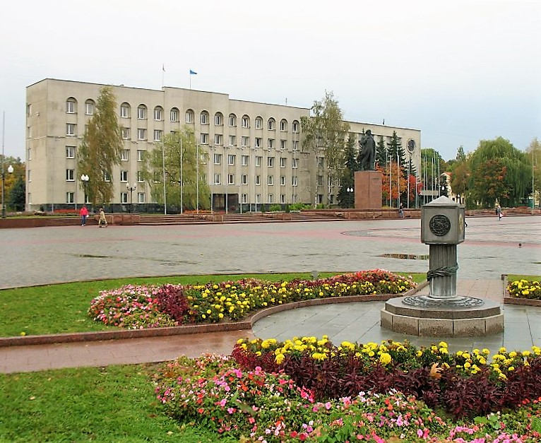 Hrdona city Administration Building in Hrodna (Гро́дна, Гродно, Grodno, Gardinas), Belarus.